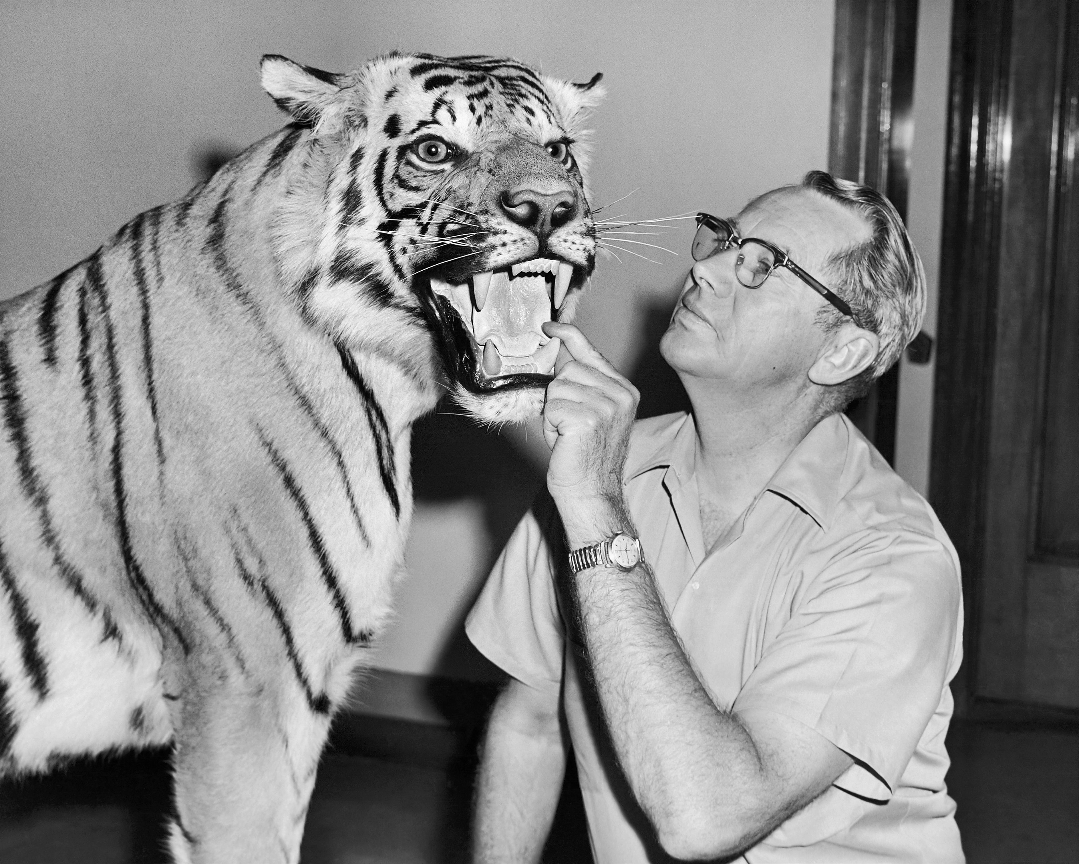 Dr. Wilmer W. Tanner, zoology professor and curator of the BYU Life Sciences Museum, examines a beautiful tiger trophy received by the museum in 1973. The specimen is part of one of the finest collections of mounted animals in the United States. The collection contains eight valuable items from Africa, Asia, and North America. Monte Bean, a Seattle businessman, donated these to the museum. Other important collections given to the Life Sciences Museum in 1973 included thirty-one head mounts and prepared skins given by Mr. and Mrs. Max A. Bench of Chatsworth, California, and eighteen specimens given by Mrs. Cleo Lillywhite of Covina, California.